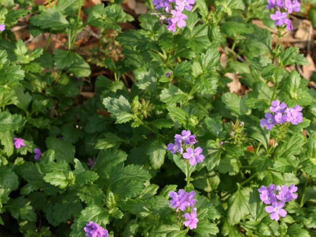 Glandularia tampensis USBG image